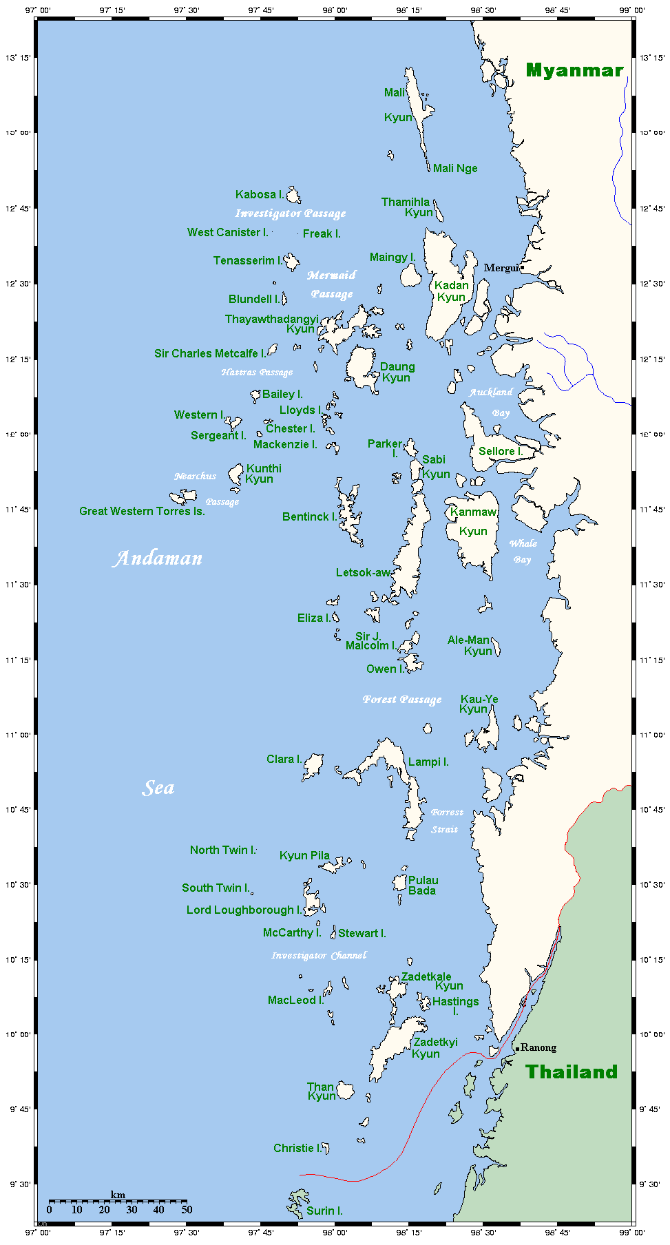 Map of the Mergui Archipelago in Myanmar. This map's source is here, with the uploader's modifications, and the GMT homepage says that the tools are released under the GNU General Public License. There is a somewhat bigger map of this area, showing places farther north and south. This is not on Wikipedia, but leave a message at my talk page if you would like such a thing, and likewise if you know any further information that ought to go on this map.